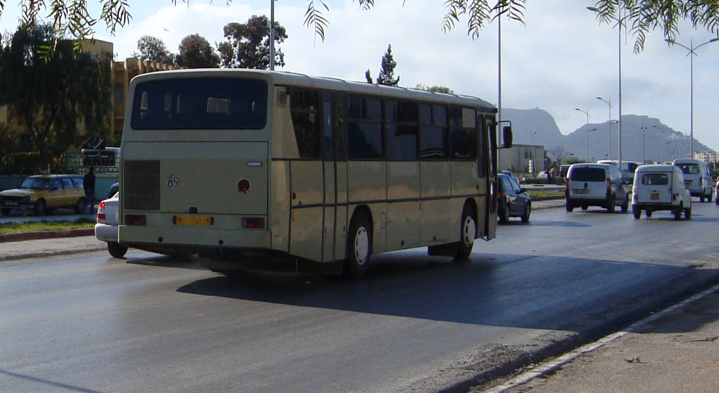 Algerian coach (autocar)